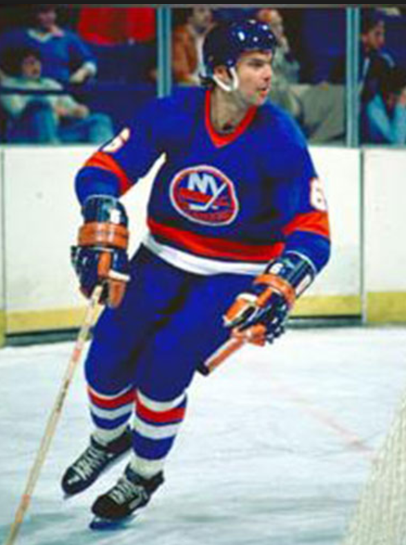 Bert Marshall skates behind the net for the New Yor =k Iskanders